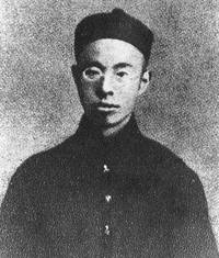 Xu Xilin（1873-1907）,a Chinese Revolutionary